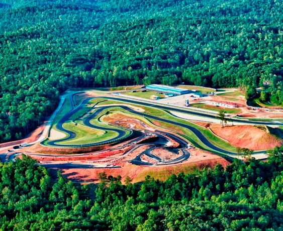 atlanta-motorsports-park